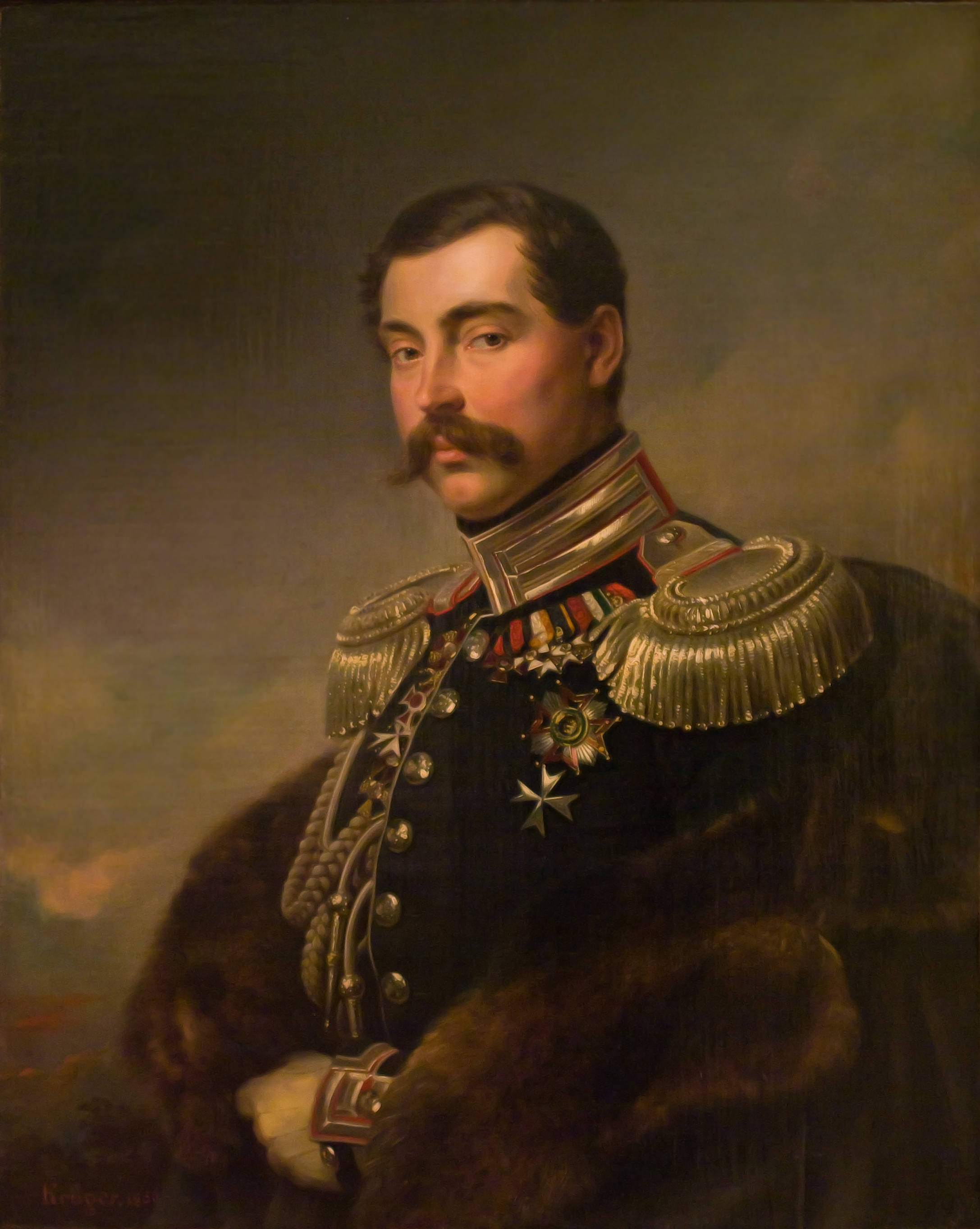 Franz Krüger (1797-1857) Portrait of Prince Alexey Obolenski in uniform of Aide-de-camp of the Guard (1850), Oil on canvas